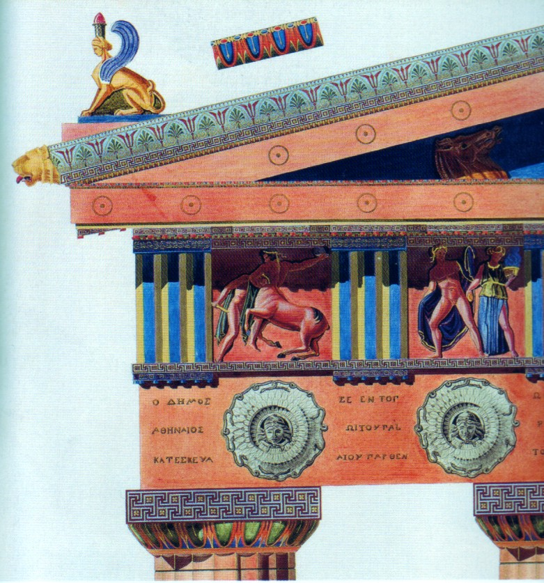 Detail of the Parthenon, Akropolis, Athens. Painted by Gottfried Semper.